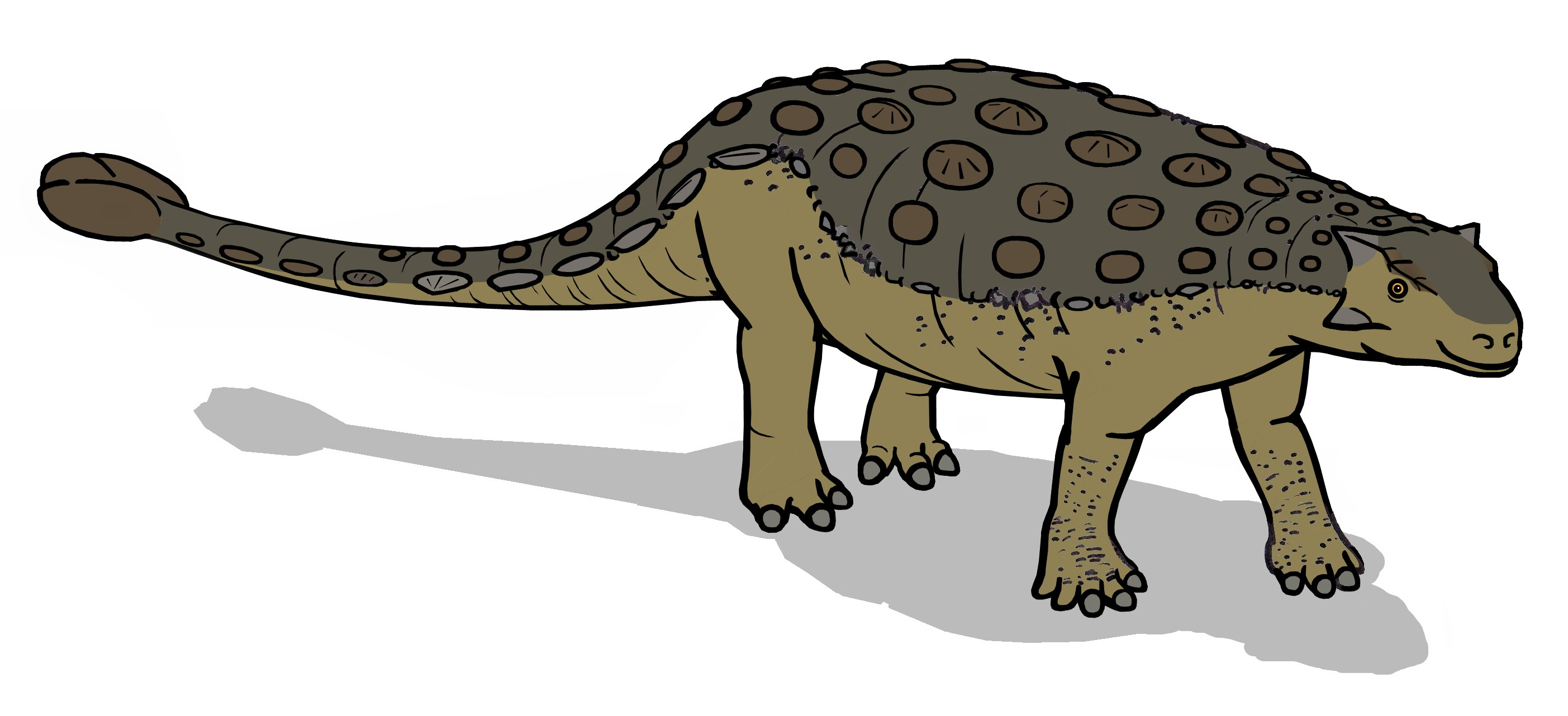 Tarchia ( "Brain" ) is a poorly known armored dinosaur, closely related to Ankylosaurus. Tarchia lived in Mongolia, and it is one of the biggest ankylosaurs found there ( about 8 meters long ). It is named for its brain, which is proportionally bigger than its relatives.